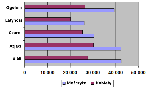 This graph was created using 2005 US Census Bureau data, released for 2006, taken from here.